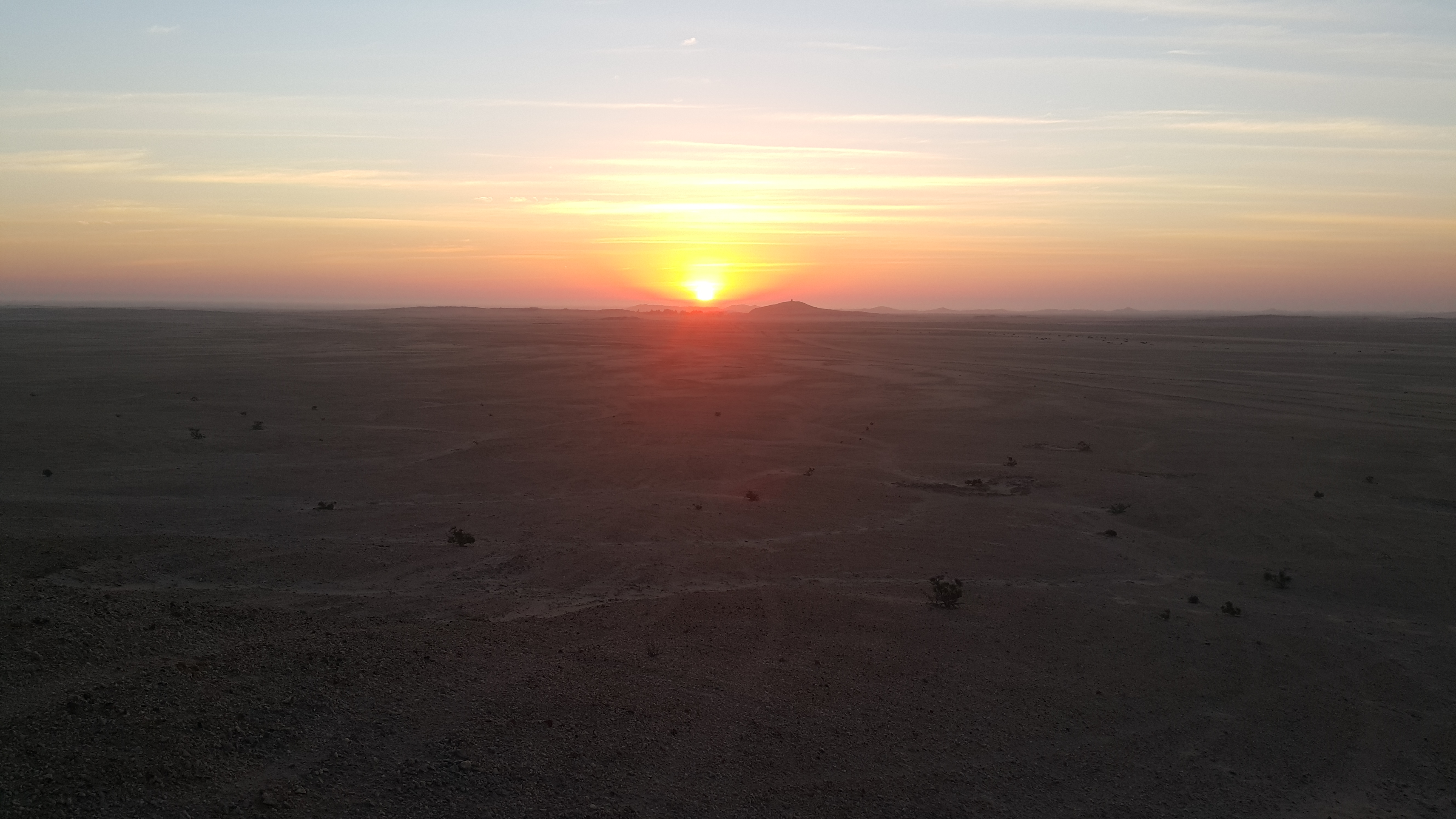 This is an image of music and dance from Namibia